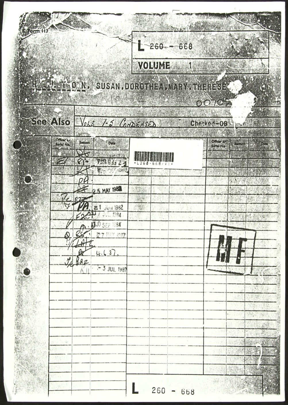 Susan Dorothea Mary Therese Hilton government file